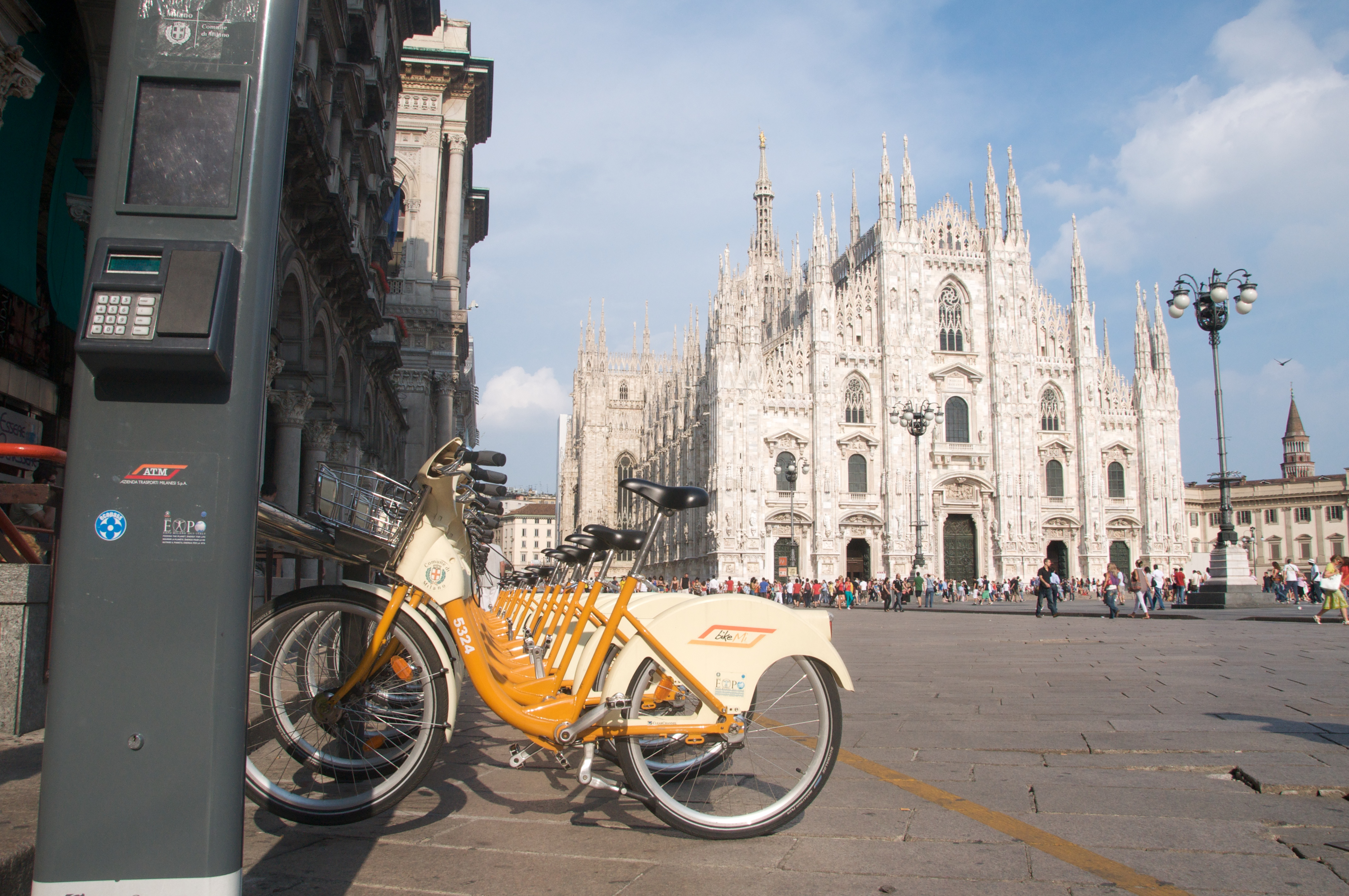 Bikemi bike sharing station in piazza del duomo, Milan